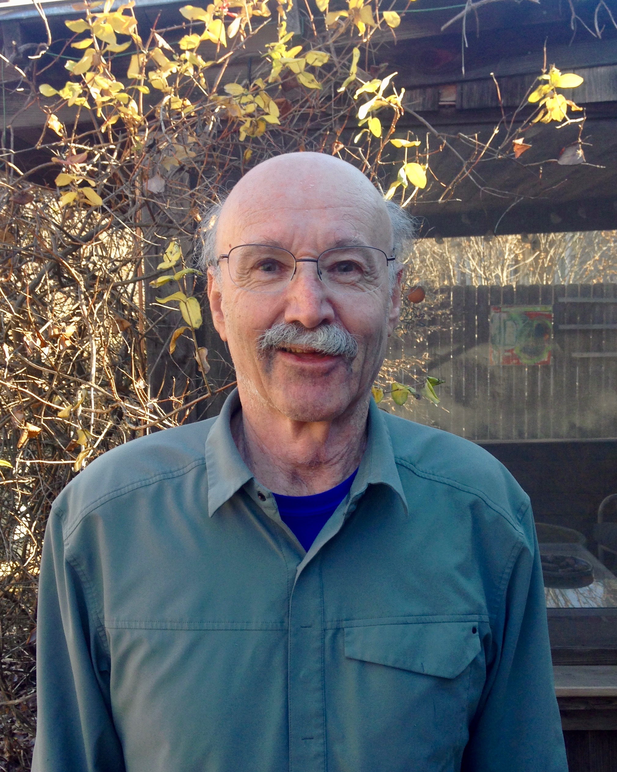 Henry Frankel, December, 2018